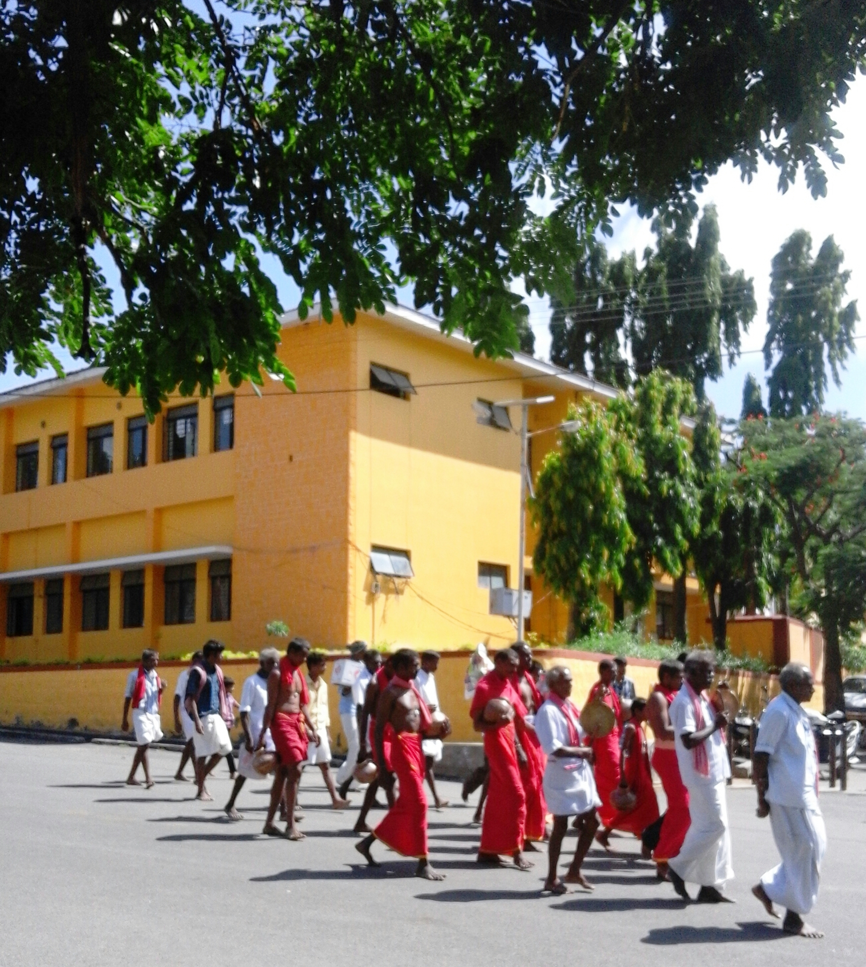 Malai Mahadeshwara Hills, Kollegal, Chamarajanagar district, Karnataka province, India.